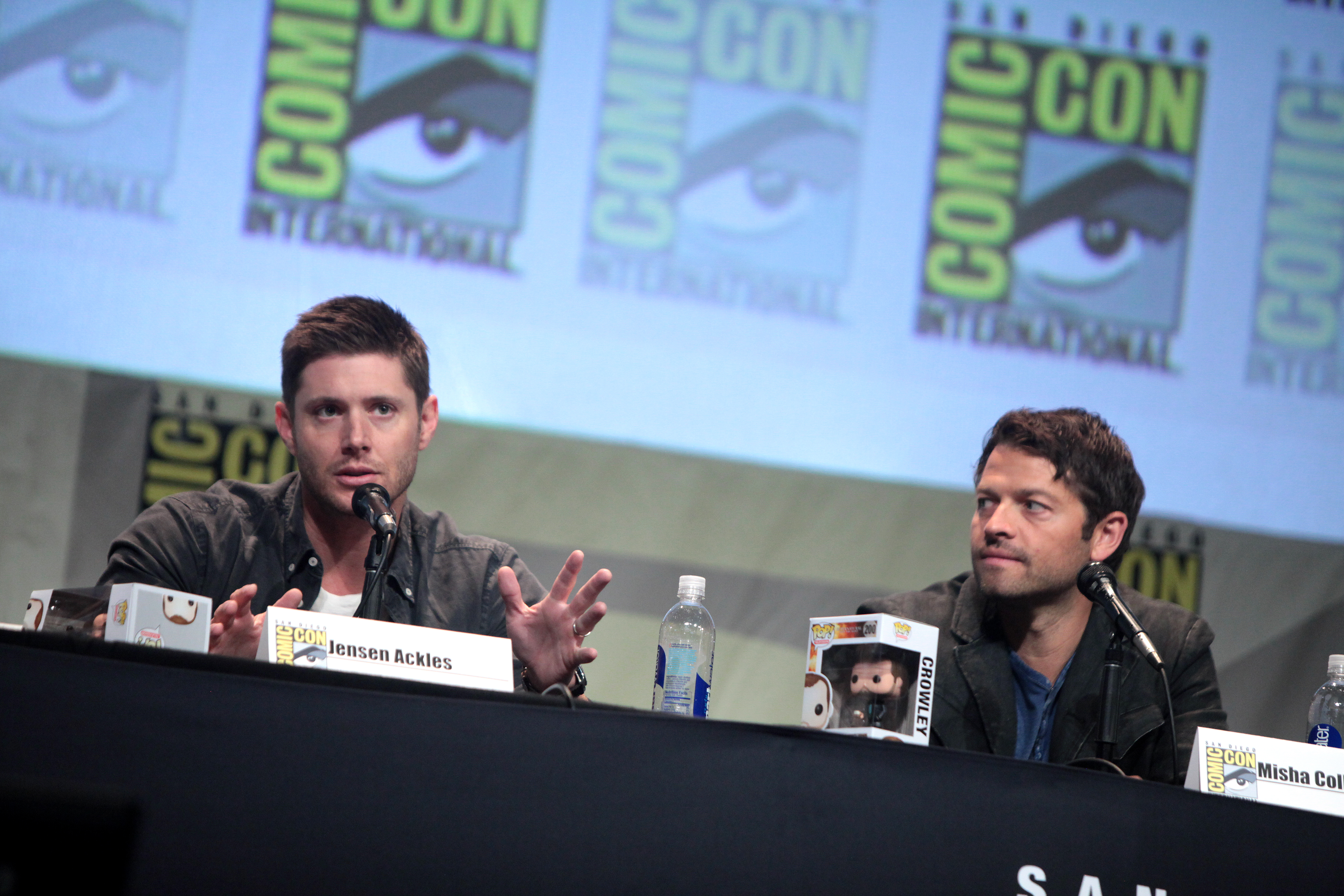 Jensen Ackles and Misha Collins speaking at the 2015 San Diego Comic Con International, for "Supernatural", at the San Diego Convention Center in San Diego, California.